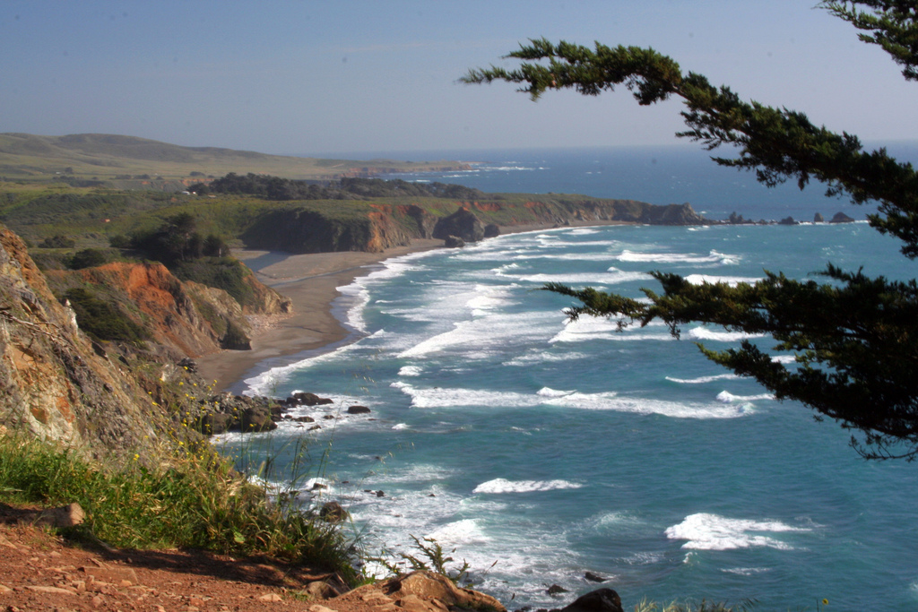 San Carpoforo Creek marks the southern limit of Big Sur. Ragged Point is the south boundary of the bay.